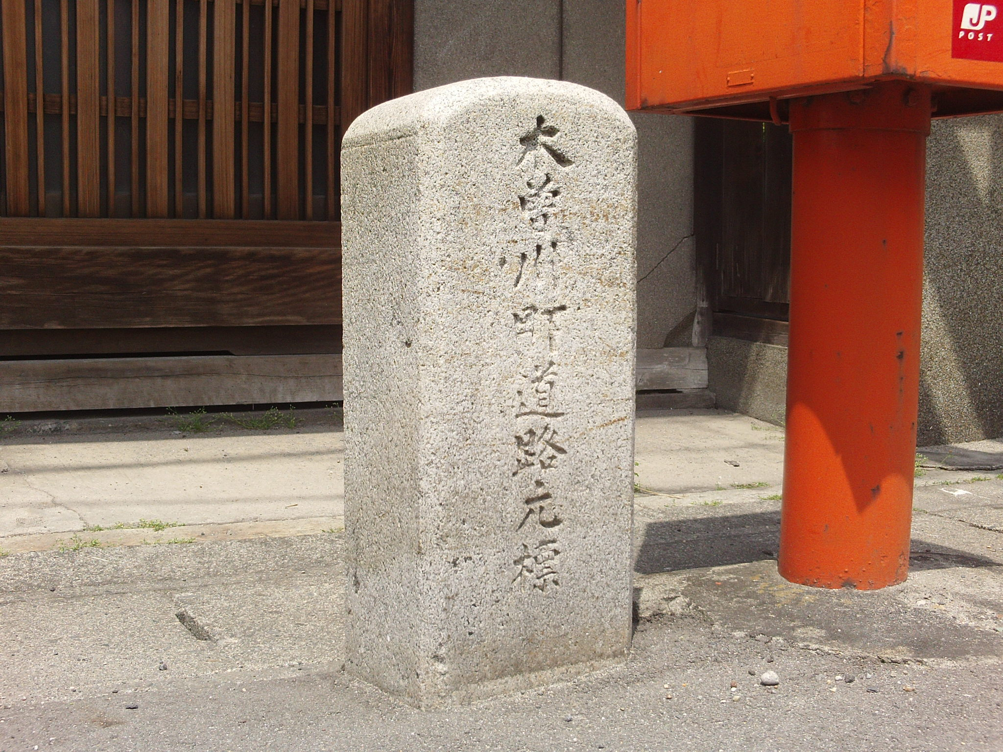 Kilometre zero of Kisogawa town. (Kisogawa town, Haguri-gun, Aichi.)